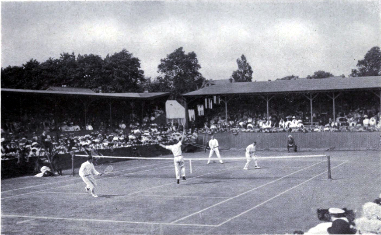 Wimbledon men's doubles finals in 1907. From left: Beals Wright and Karl Behr (this side of the net) vs. Tony Wilding and Norman Brookes.